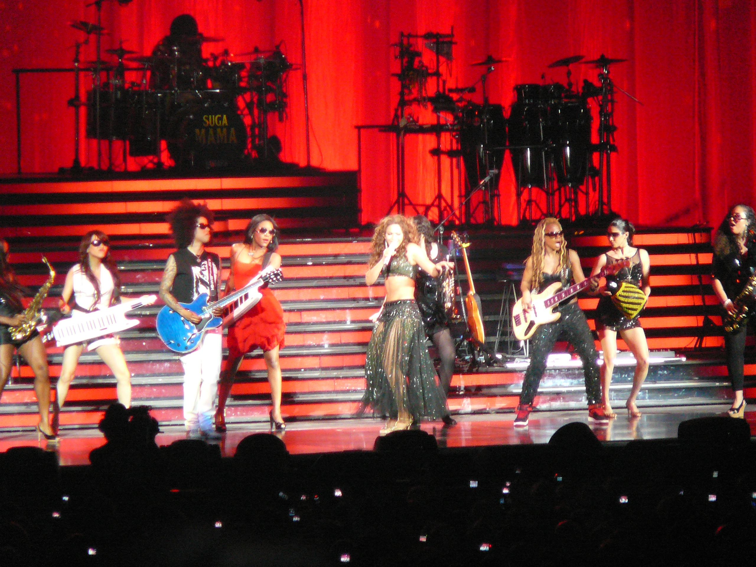 Beyoncé Knowles singing "Naughty Girl"